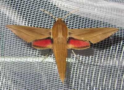 Hippotion eson moth (Cramer, 1779) Picture taken in Réunion